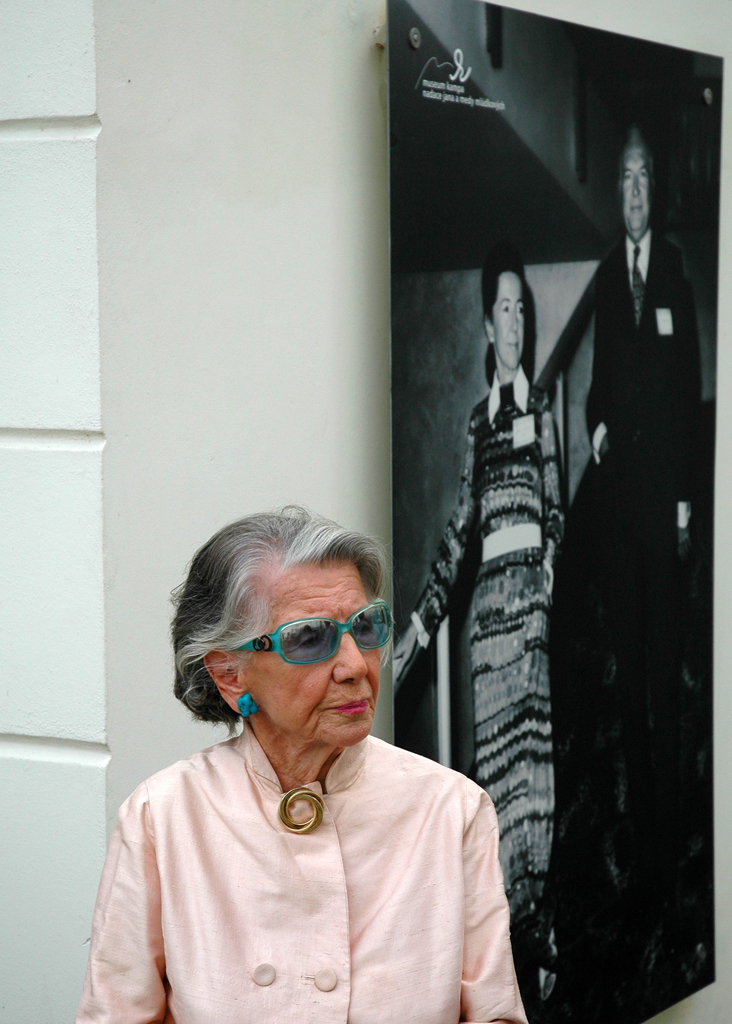 Meda Mládková, art collector, founder of Museum Kampa, Prague